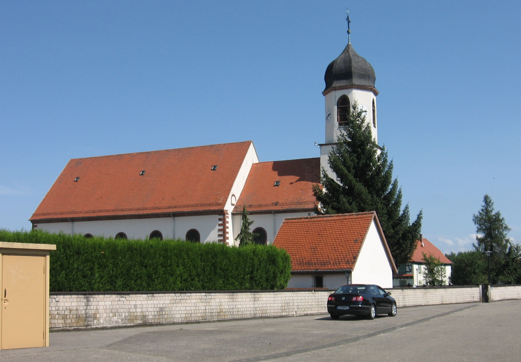 Mothern